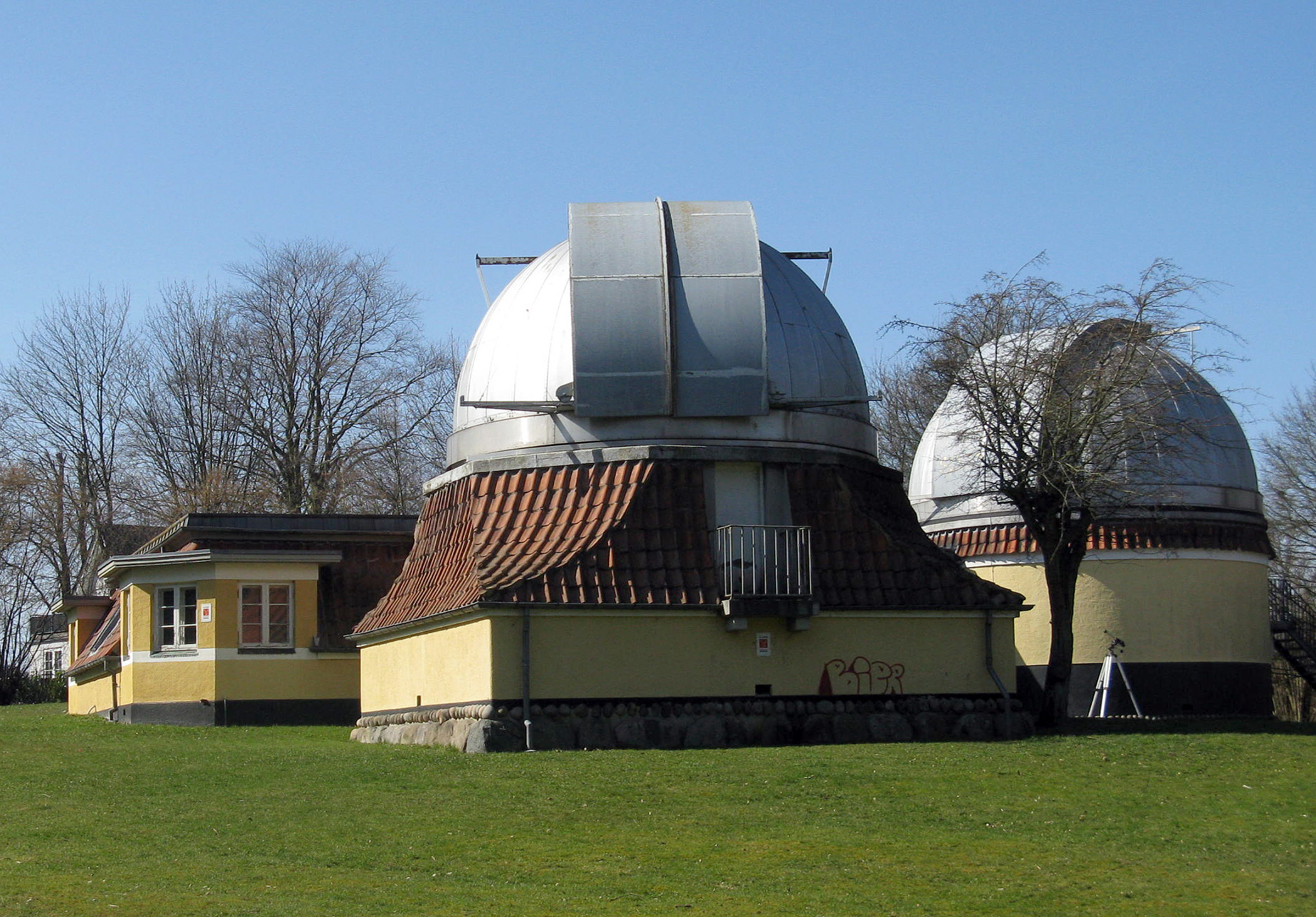 Ole Rømer Observatoriet in Århus, Denmark made by architect Anton Rosen (1859 - 1928)